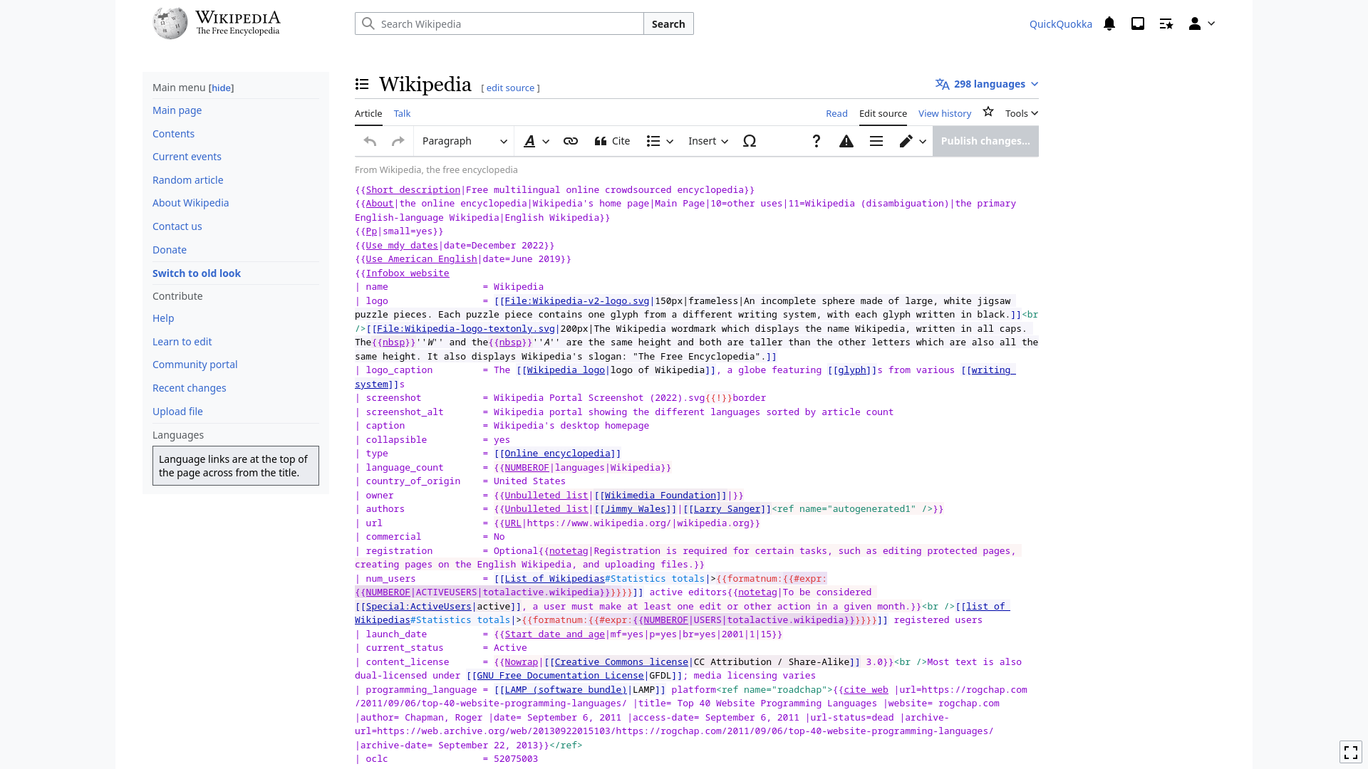 A screenshot of the editing interface on Wikipedia.